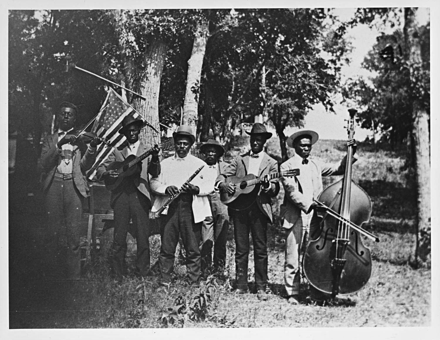 Emancipation Day Celebration band, June 19, 1900,Texas,USA